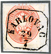 Austrian KK 5 kreuzer stamp, issue 1864, cancelled at KARLOVAC, Croatia-Slavonia. Mueller type RzhB-f (35x2 points).